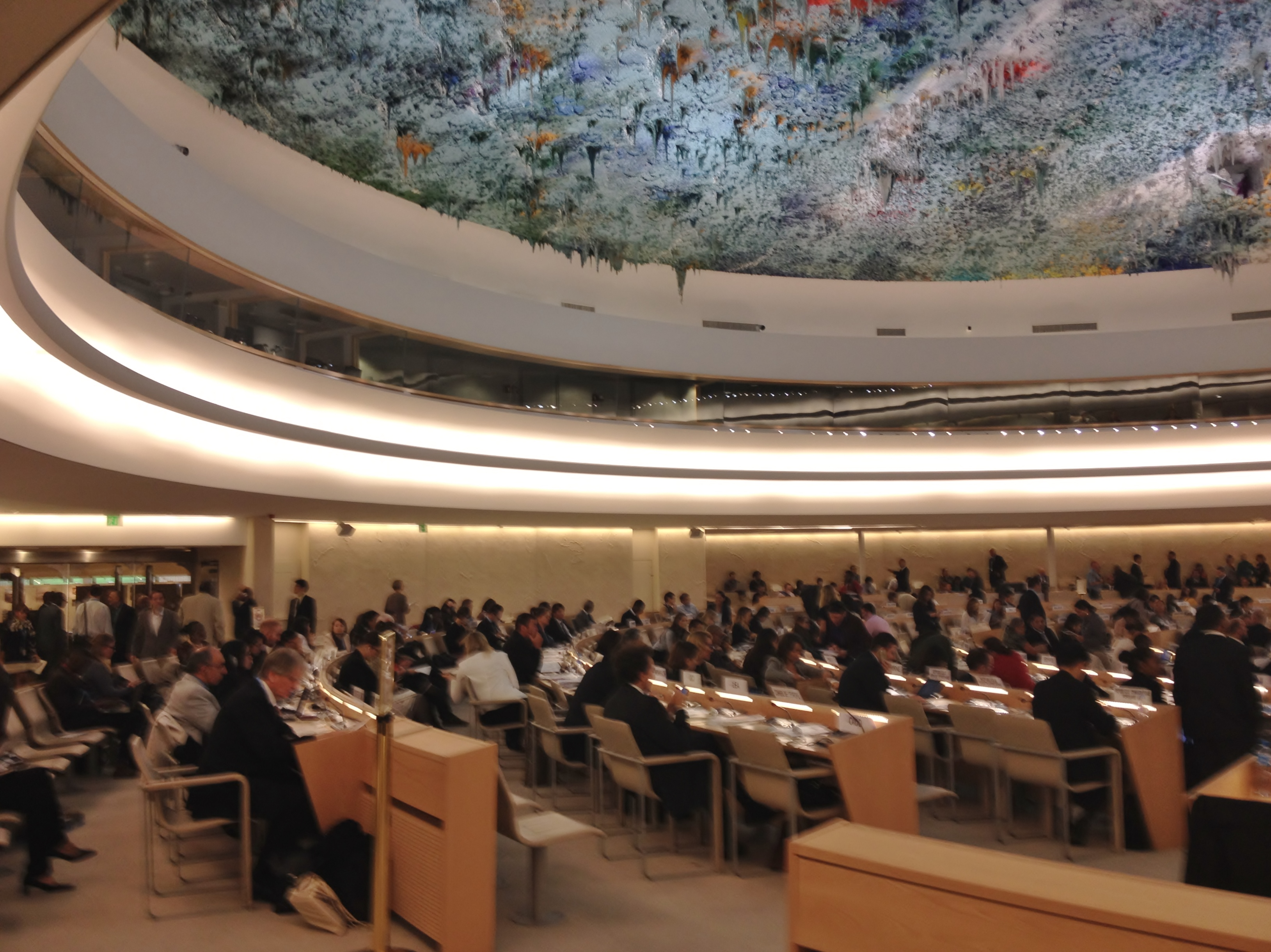 In 2015, the Human Rights Council adopted the Advisory Committee Report "Role of local government in the promotion and protection of human rights". The document saw great recognition of local governments as key actors in the promotion and defense of human rights at an international level.